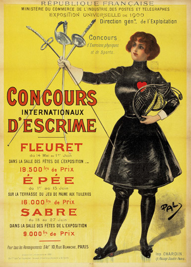 One of the posters published on the occasion of the Olympic Games in Paris in 1900. It is presented by the IOC as the official poster of the Olympic Games.